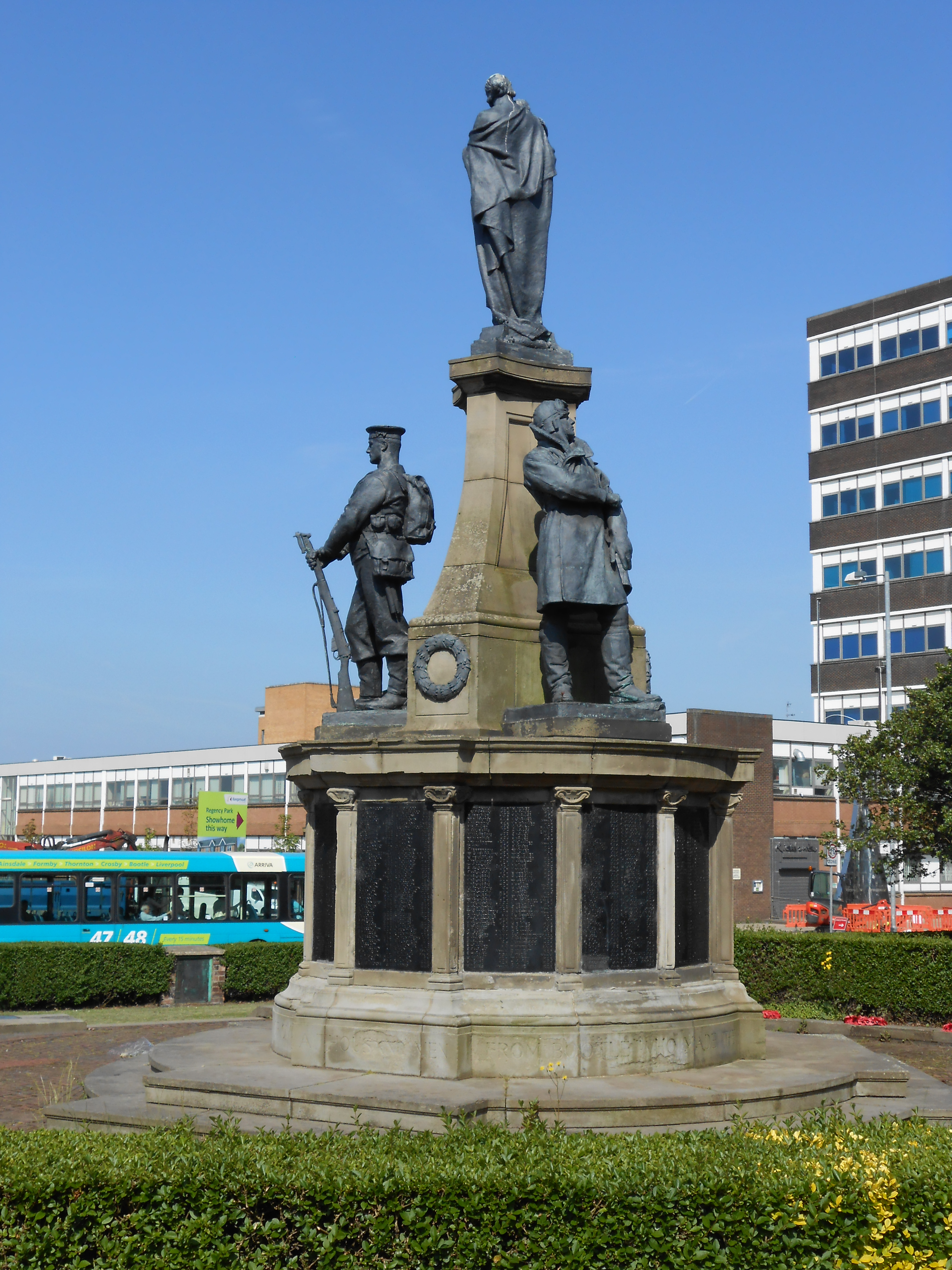 Photo taken at Bootle War Memorial, Kings Gardens, Bootle, Merseyside, England.